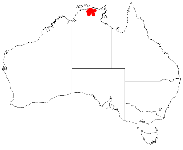 Acacia scopulorum Occurrence data from Australasia Virtual Herbarium downloaded from on 8 December 2018